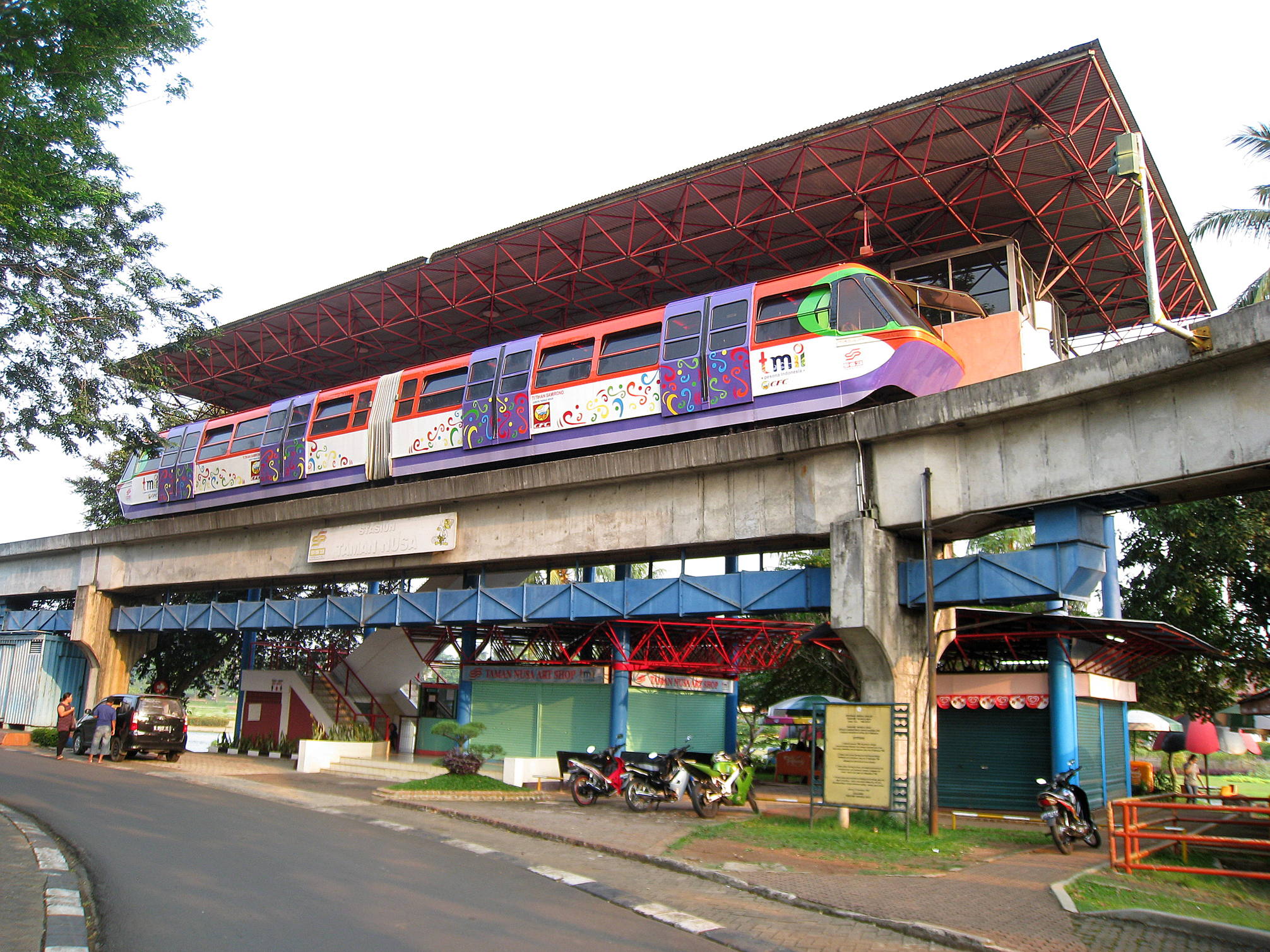 The aeromovel (wind driven) elevated train, in Taman Mini Indonesia Indah, Jakarta. The rail beam is actually a wind tunnel that enable the flaps under the train flip and catch the wind kinetics energy with law of physics similar to sail of the boat.